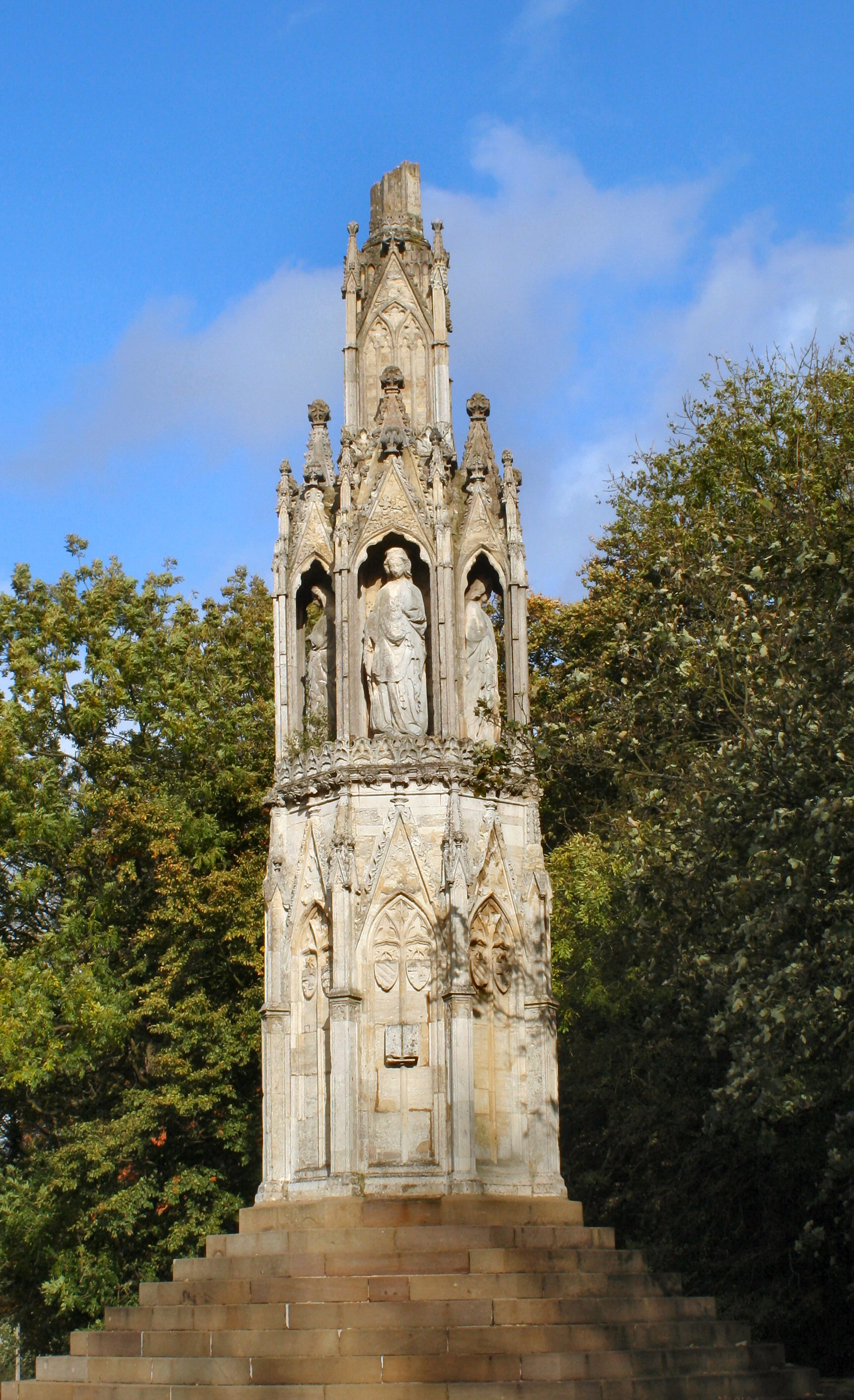 The Northampton Queen Eleanor Cross; picture taken (c) by R Neil Marshman 28 October 2005